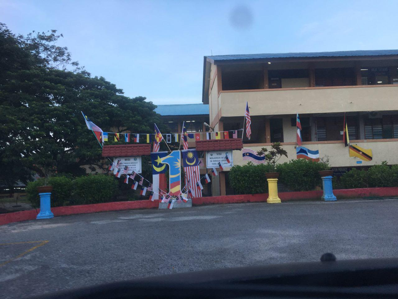 1 Malaysia